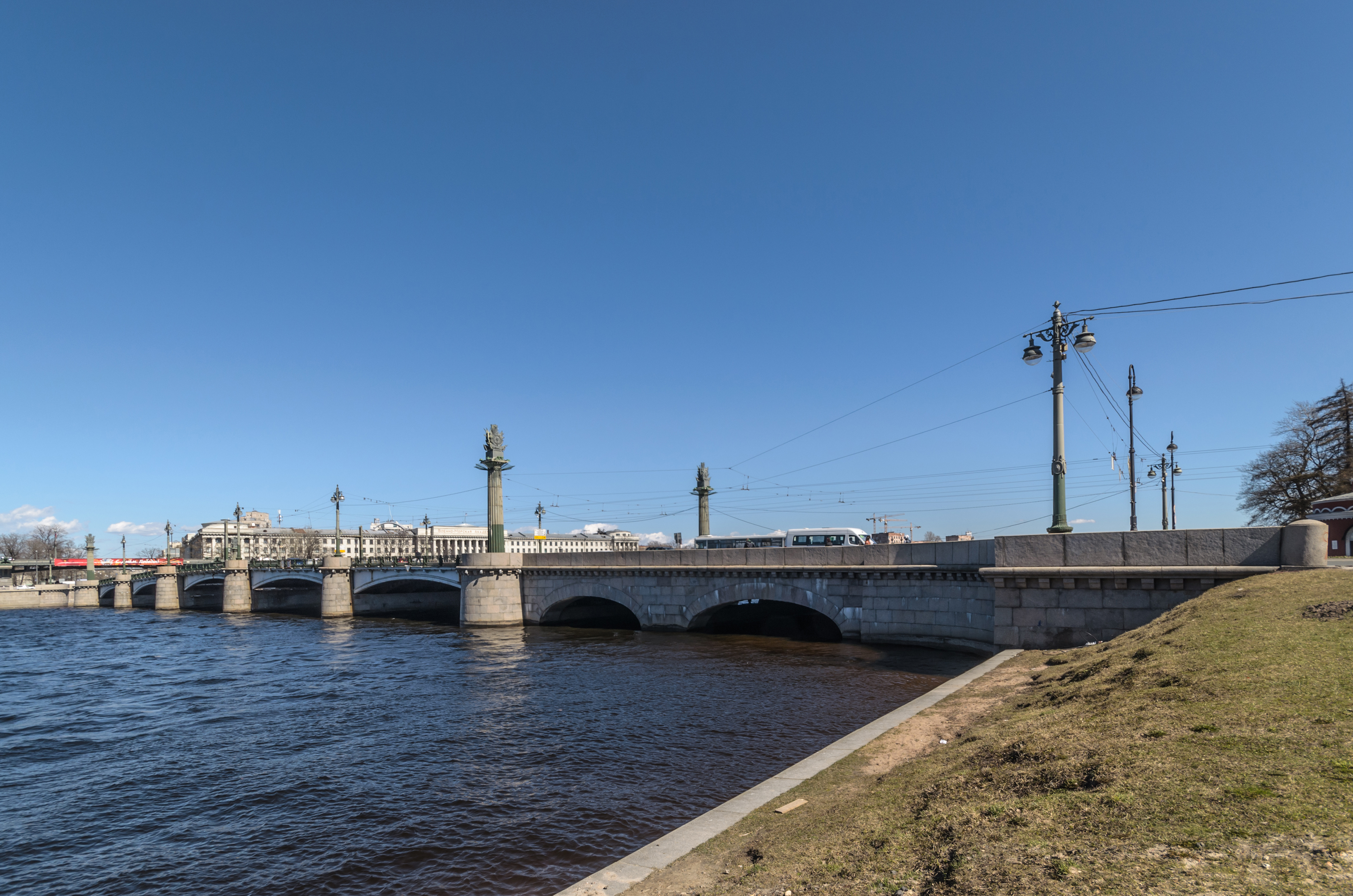 Ushakovsky Bridge in Saint Petersburg